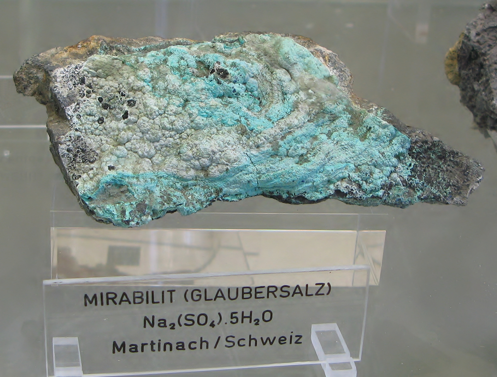 Mirabilite - Locality: Martinach, Switzerland - Exposed in the Mineralogical Museum, Bonn, Germany